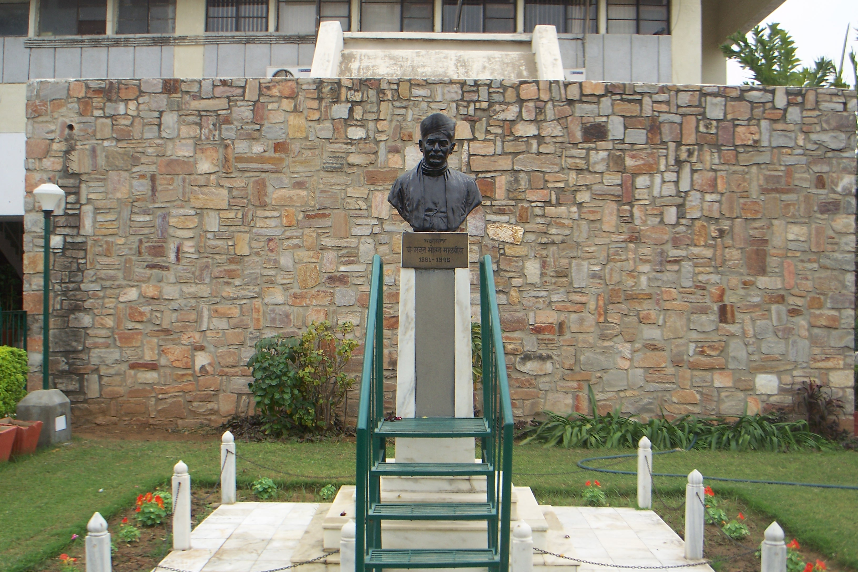 Statue of Pt. Madan Mohan Malaviya, MNIT